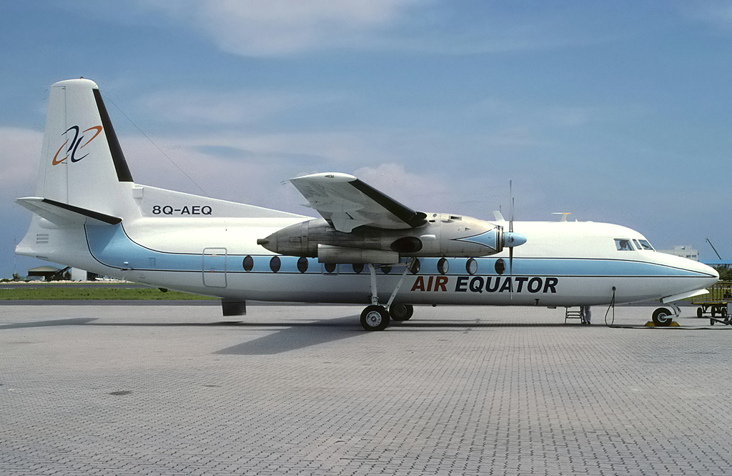 Air Equator Fairchild F-27F at Male International Airport. Air Equator had been operation for just two weeks at the time of this photo of their rare Fairchild, offering services from Malé to Gan, Hanimaadhoo and Kadedhoo, but discontinued flying in May 2005. The F-27 originated with Phillips Petroleum in 1965 as N966P and was sold as 6.74 to Quebec Cartier Mining, in whose basic colours the aircraft remains, and later as N19HE